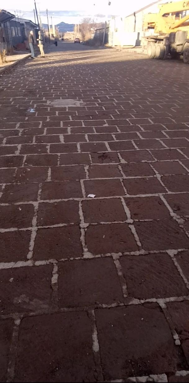 A street paved with tuff in the city of Gyumri, Armenia.